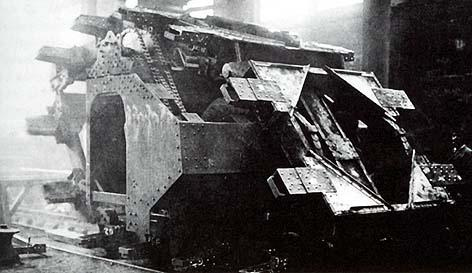 Second_Boirault_machine